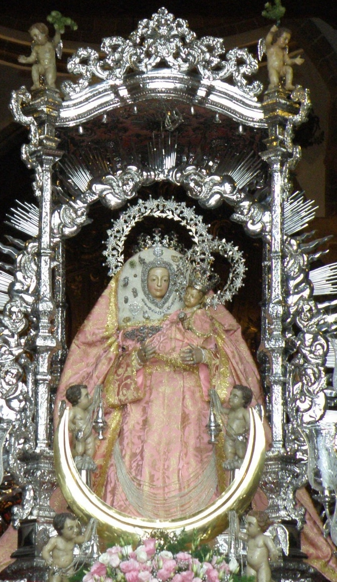 Virgen del Pino